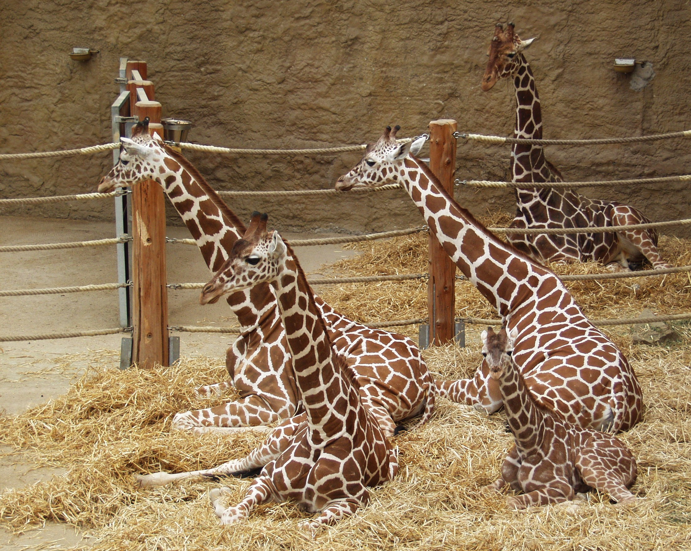 Reticulated giraffe (Giraffa camelopardalis reticulata) in Zoo Duisburg, Germany